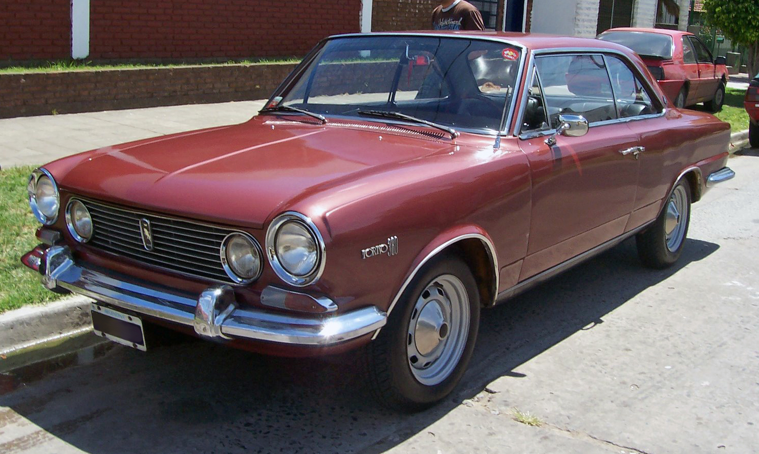 Early IKA-Renault Torino 380 coupé (1966-1970)